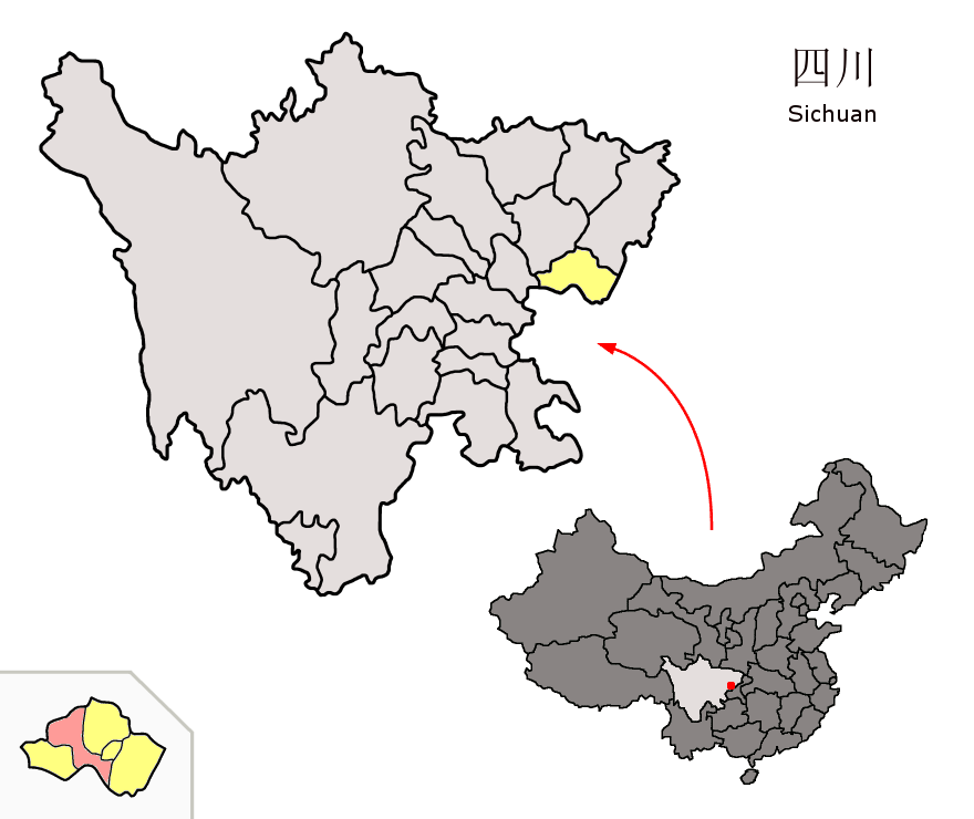 Location of Yuechi County (pink) and Guang'an Prefecture (yellow) within Sichuan province of China Map drawn in october 2007 using various sources, mainly : Sichuan province administrative regions GIS data: 1:1M, County level, 1990 Sichuan Counties map from